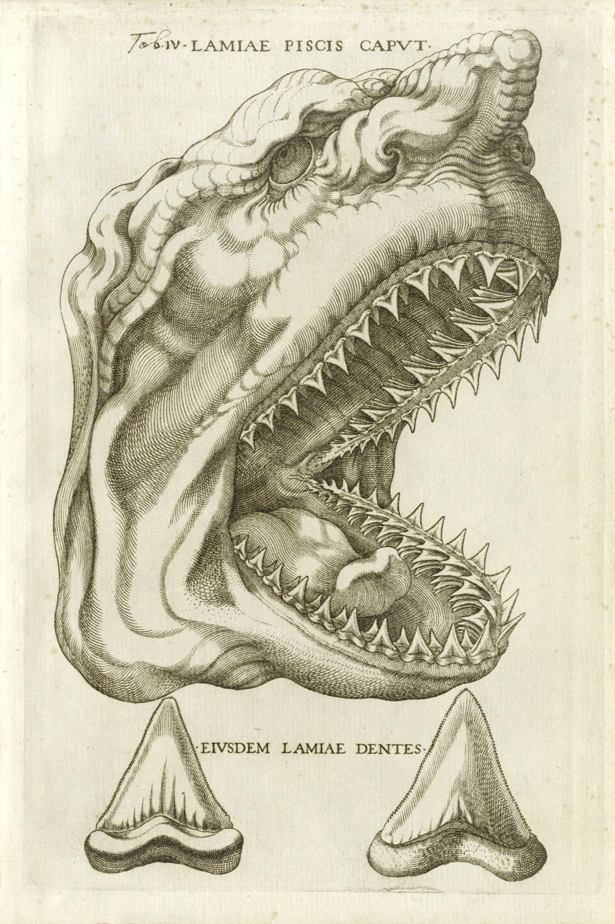 White shark head and teeth from Elementorum myologiae specimen, seu musculi descriptio geometrica, first edition, Florence, [Joseph Cocchini], sub signo Stellae, 1667